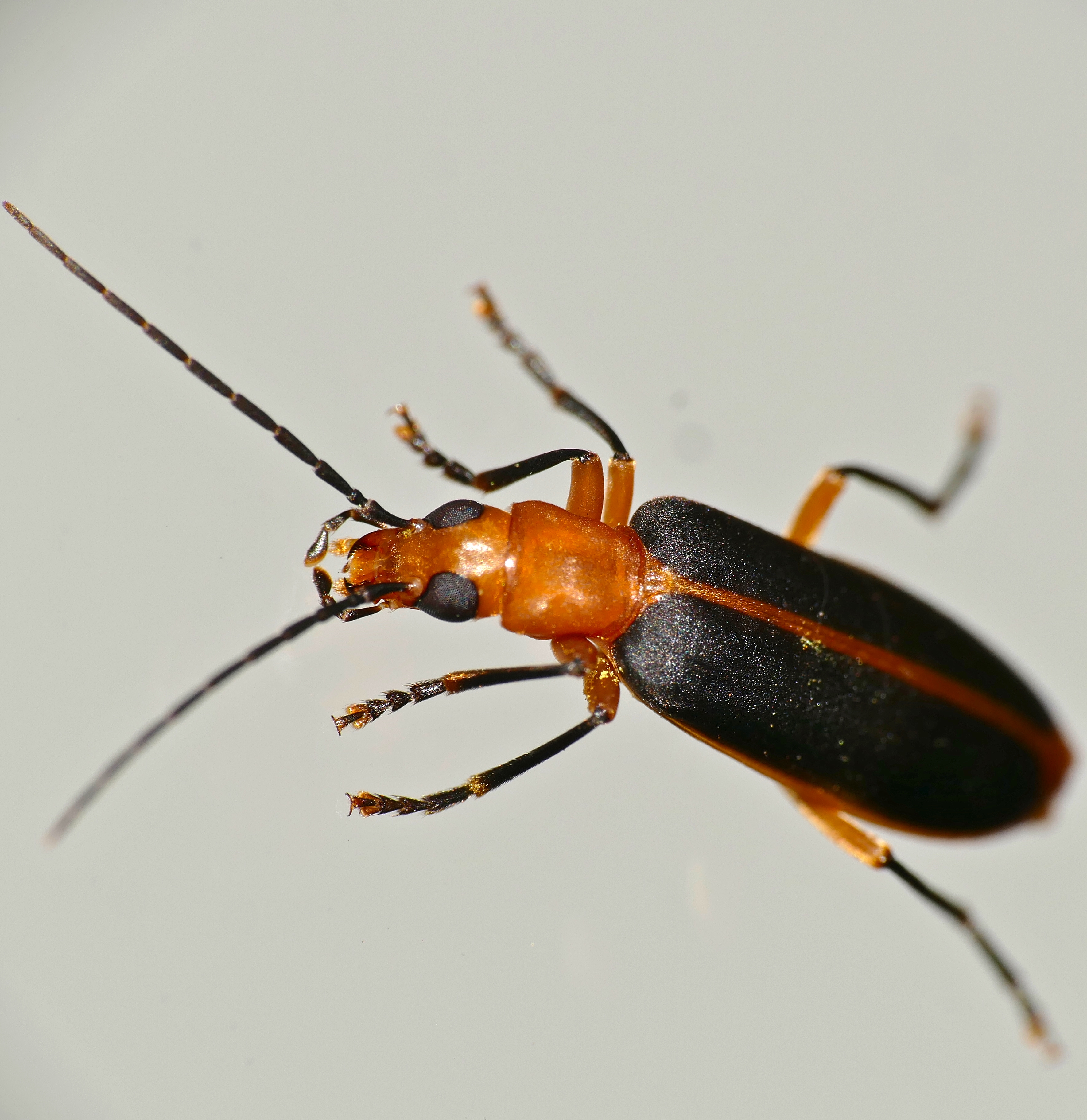 Ntshondwe Camp, Ithala Game Reserve, Kwazulu-Natal, SOUTH AFRICA